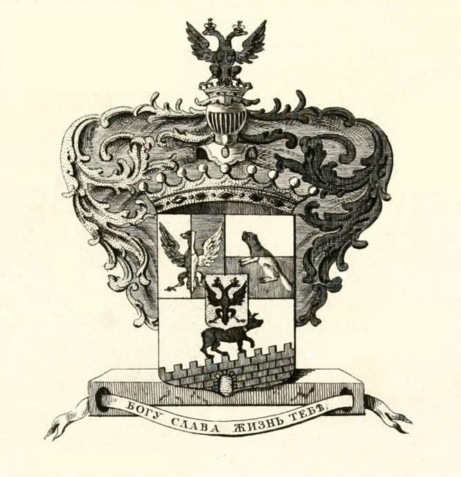 This (more than) 200 years old image has been reformatted, so it became a personal creation, with no rights attached